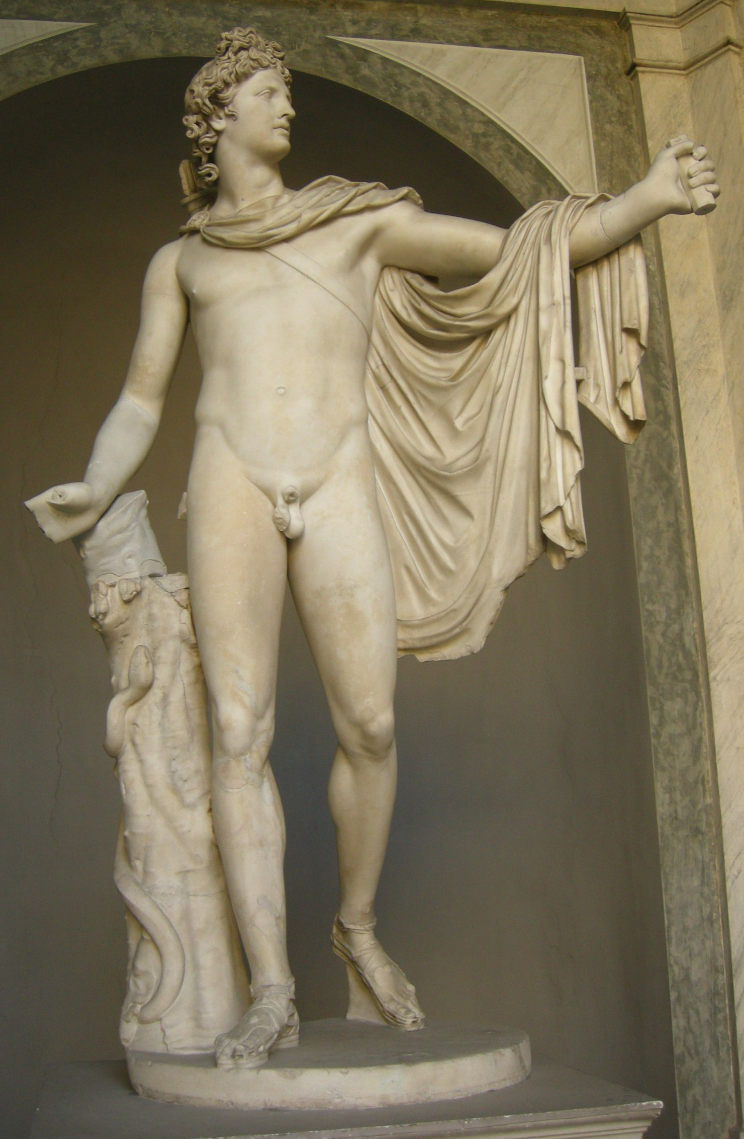 Roman copy after a Greek bronze original of 330–320 BC. attributed to Leochares. Found in the late 15th century.